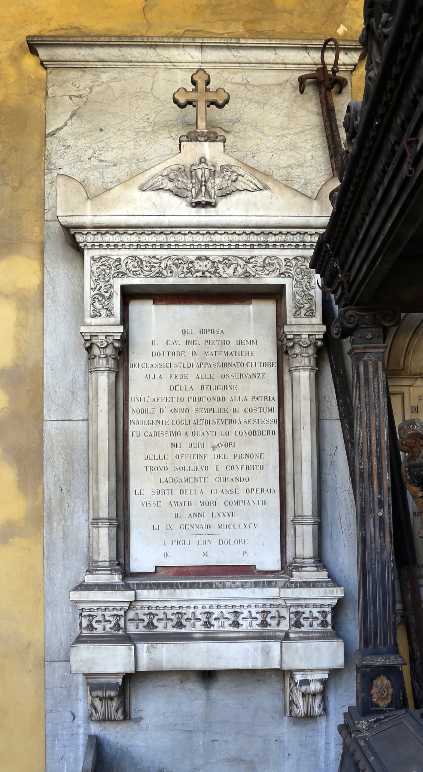 Cimitero della Misericordia (Florence)